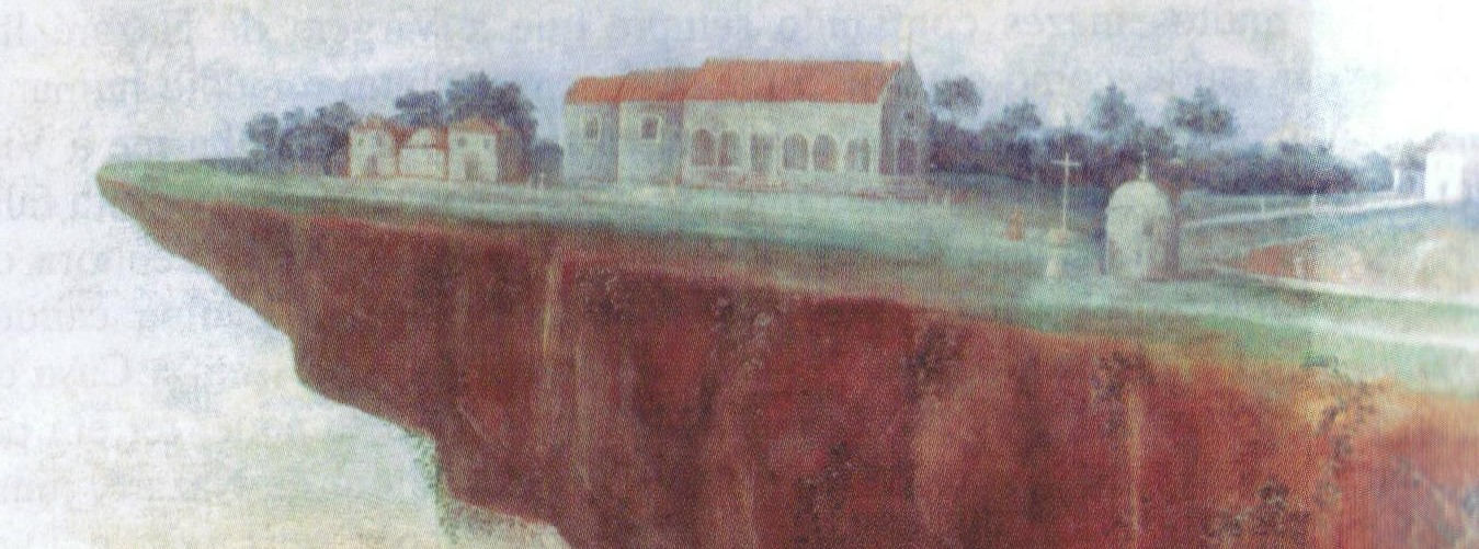 Nazaré, Portugal, Sítio, Santuário de Nossa Senhora da Nazaré, Church and Chapel of Memory, 14th century, detail of a painting of an unknown author of the 17th century